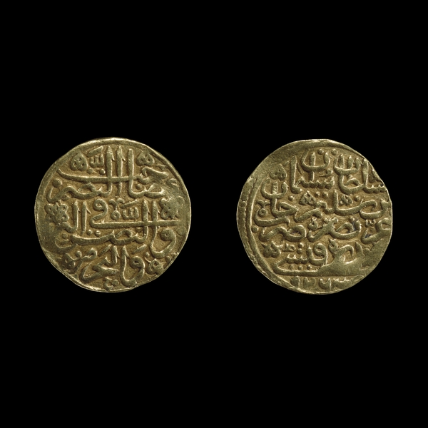 A gold coin for the period of Suleiman I of the Ottoman Empire.